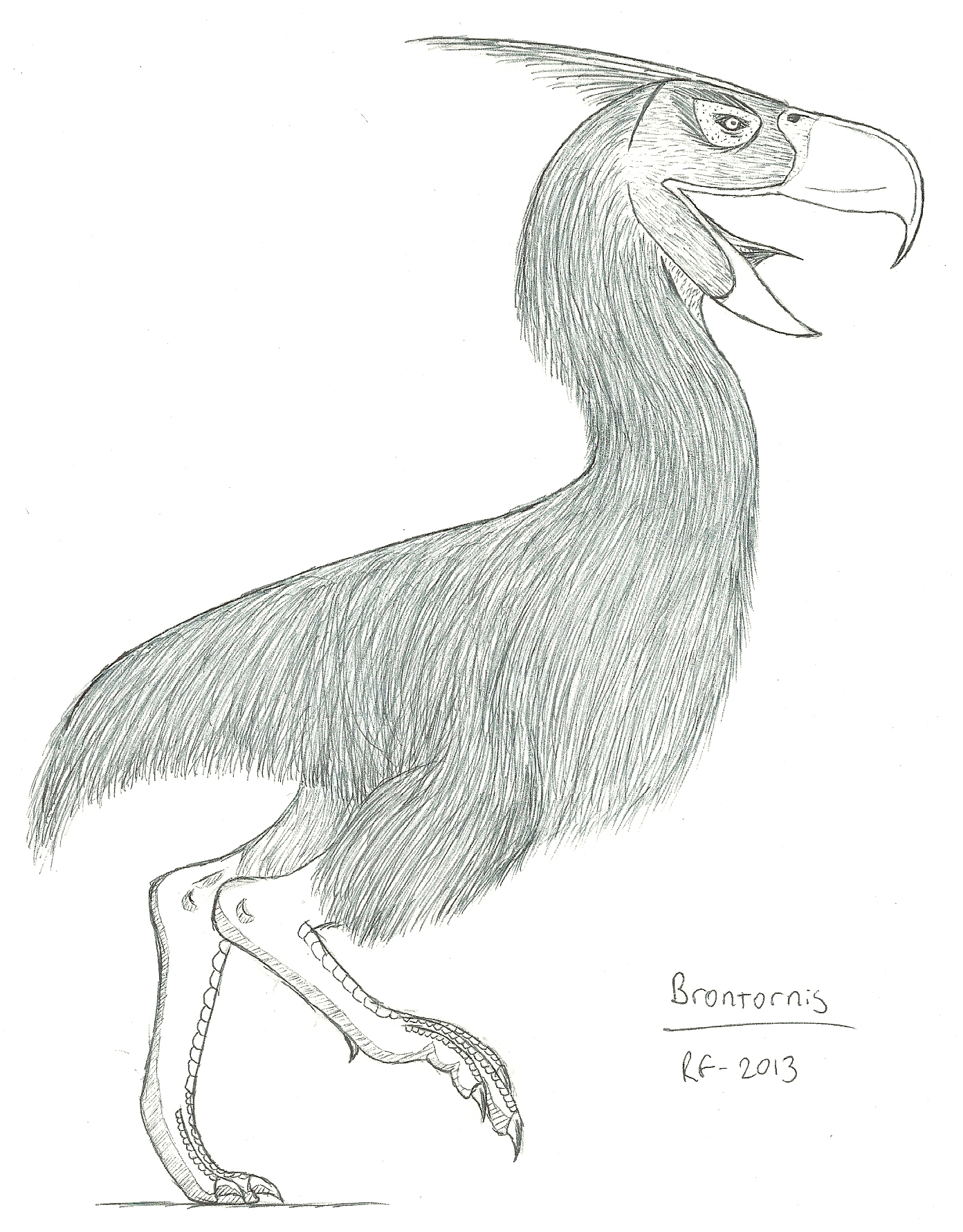 Life reconstruction of the terror bird Brontornis burmeisteri. I did this reconstruction based on the literature of Alvarenga & Hofling., 2003. For portions of Brontornis that were not clear based on available data, I used the Brontornithine Paraphysornis as a basis to fill out missing parts. If any of you have the ability to do digital painting and would like to do so, please color this thing like a golden eagle but with a red and black crest. I would greatly appreciate it. I suck a PS way too much to pull it off.